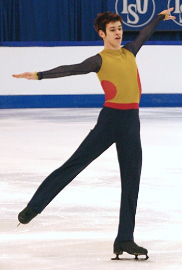 Jordan Brauninger competes his short program at the 2005 World Junior Championships in Kitchener, Ontario.